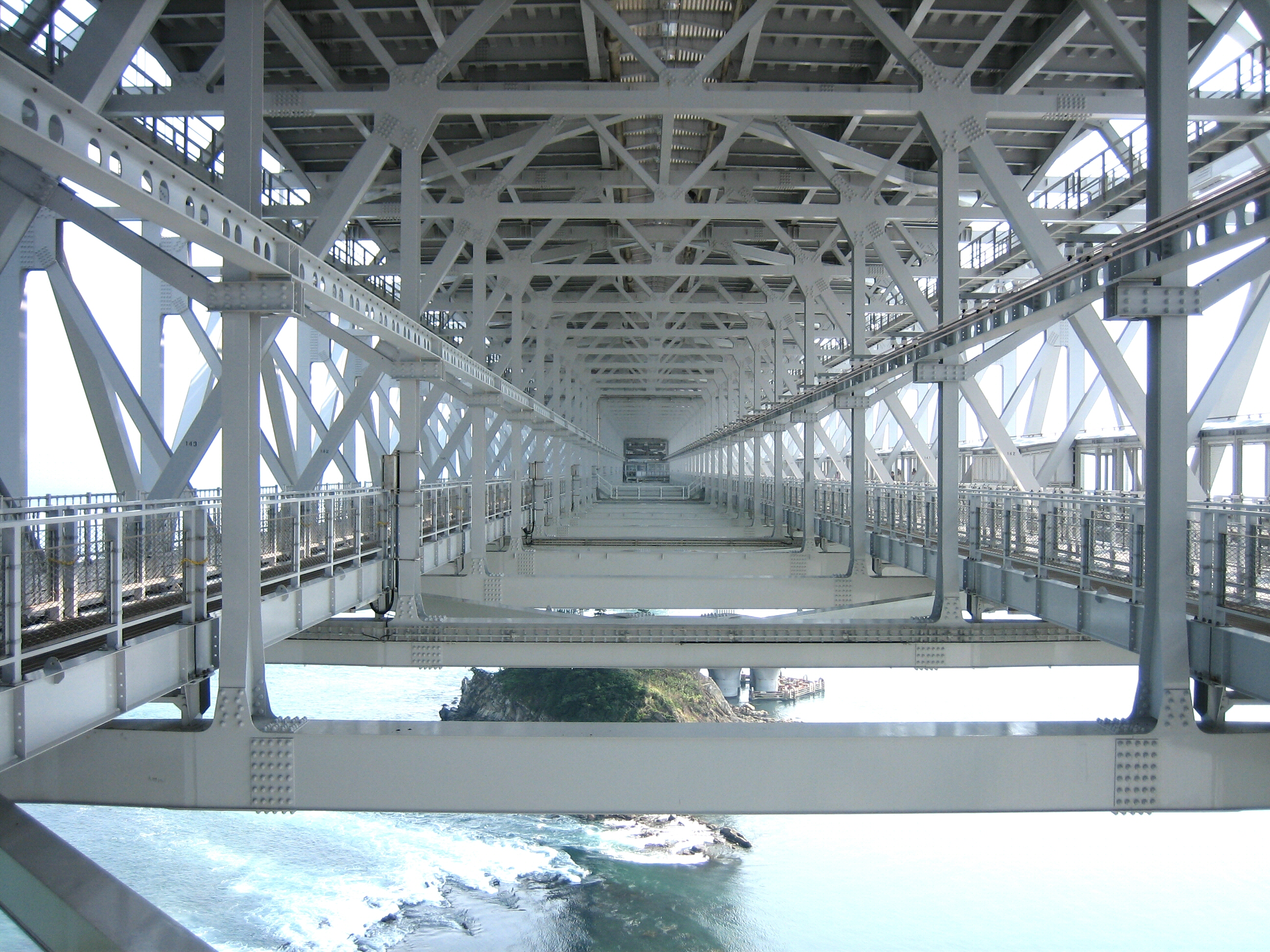 Bridge inside in "Oh Naruto Bridge".